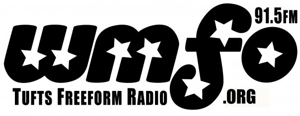 WMFO 91.5FM Station Logo